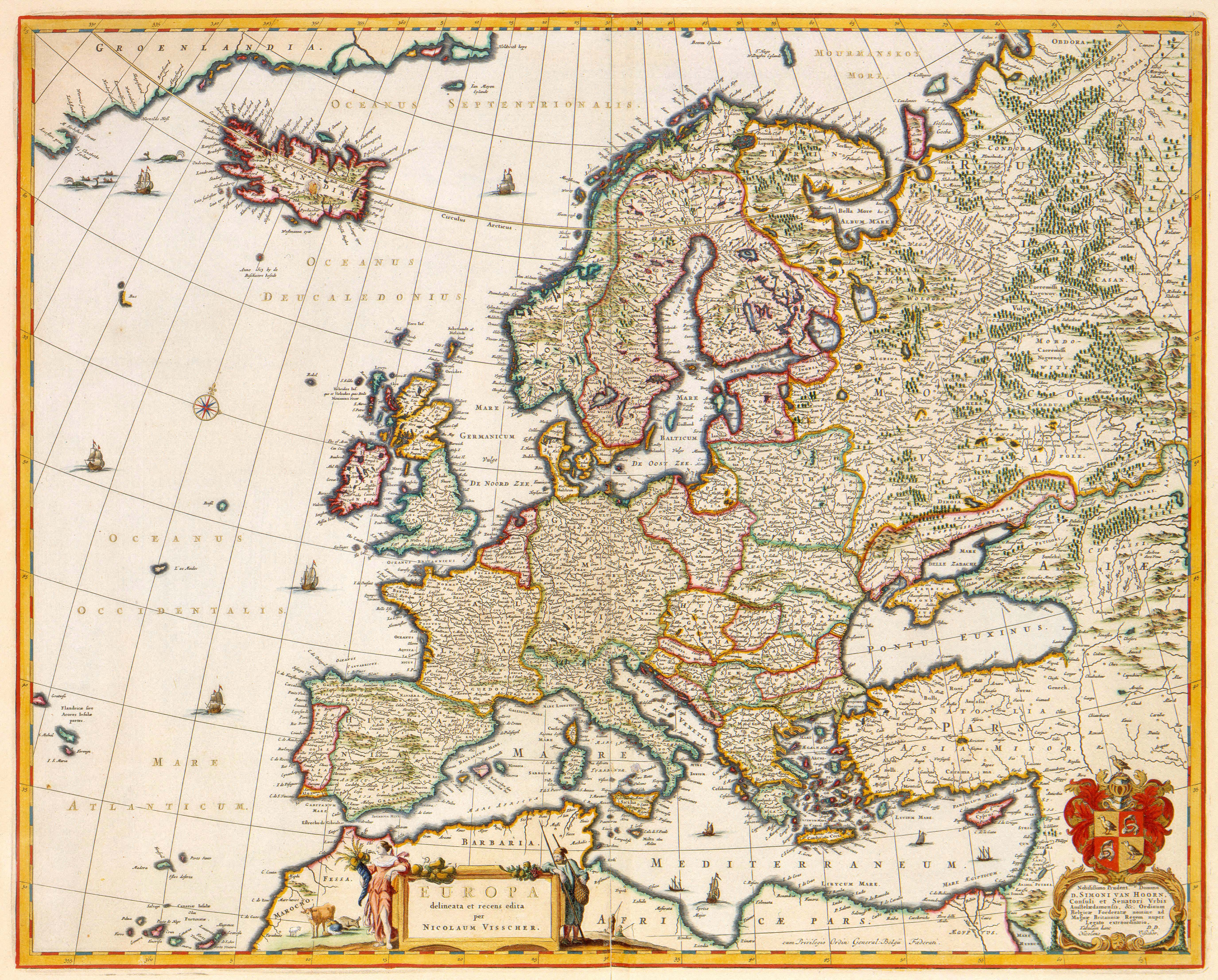 This map of Europe was published by the Amsterdam publisher Nicolaes Visscher I (1618-1679), or by his son Nicolaes Visscher II (1649-1702). A map of Europe belonged in each 17th century atlas. Such a map often served as a kind of index for searching detailed maps of European countries in a greater geographical context. Therefore, such maps were not always depicting a reliable image of an area. Large areas in northern and southern Europe for example, were hardly explored, while on the other hand many wars and battles on the main land made it difficult to establish actual border lines.